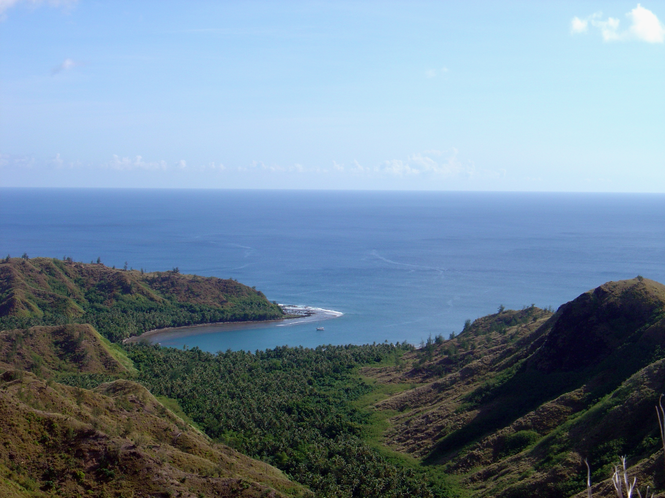 Cetti Bay, on the southern coast of Guam. Mariana Islands, Guam.